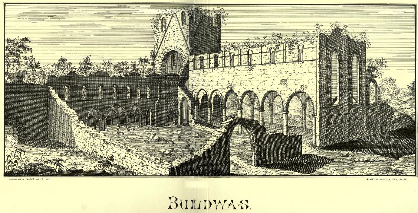 An illustration to an 1877 publication, copied from a 1731 engraving published by Samuel and Nathaniel Buck.